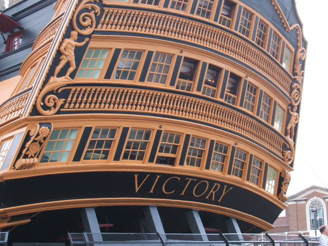 HMS Victory